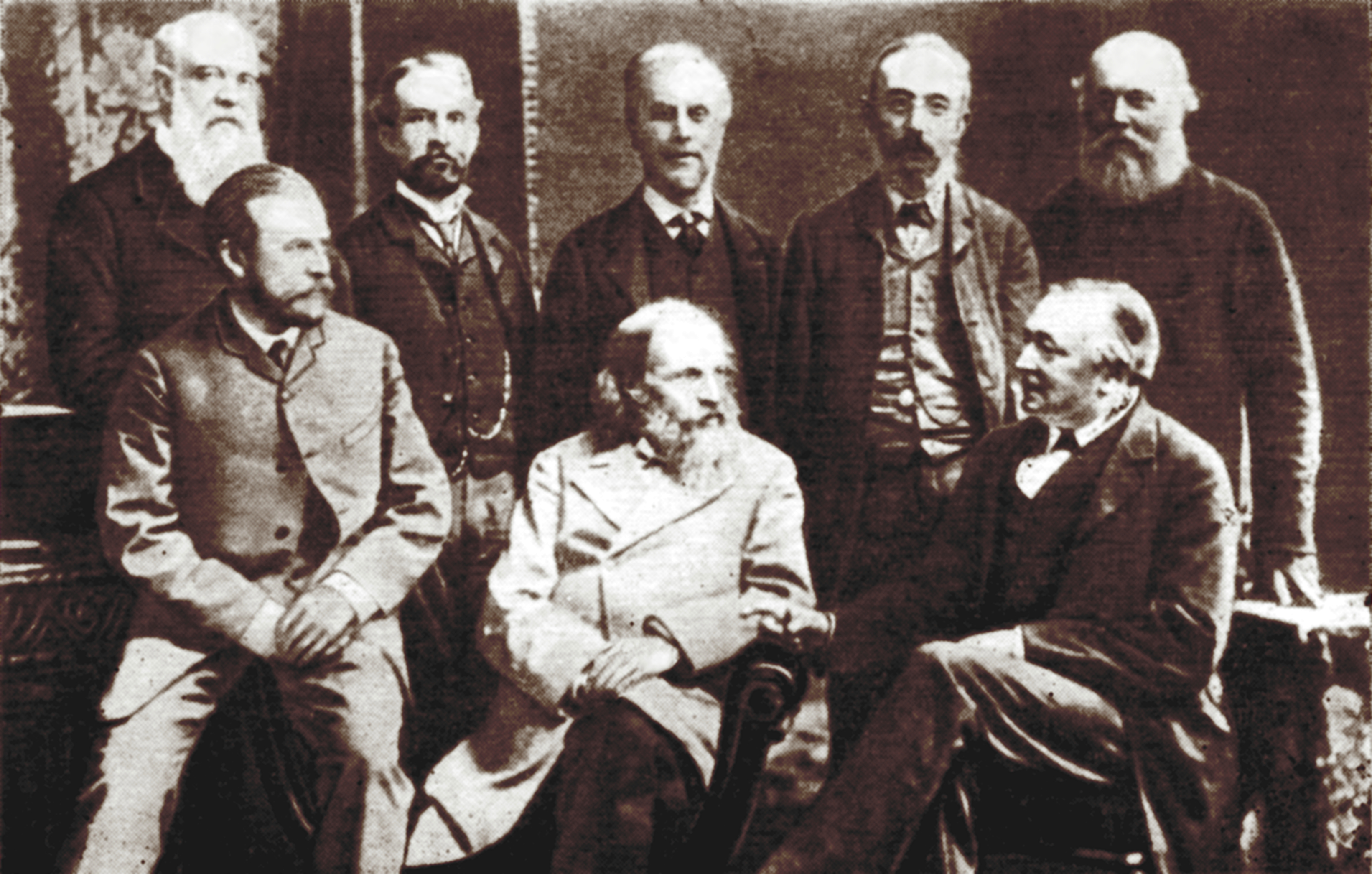 Participants of 52nd Congress of British Associacion of the Advancement of Science. Manchester. 1887